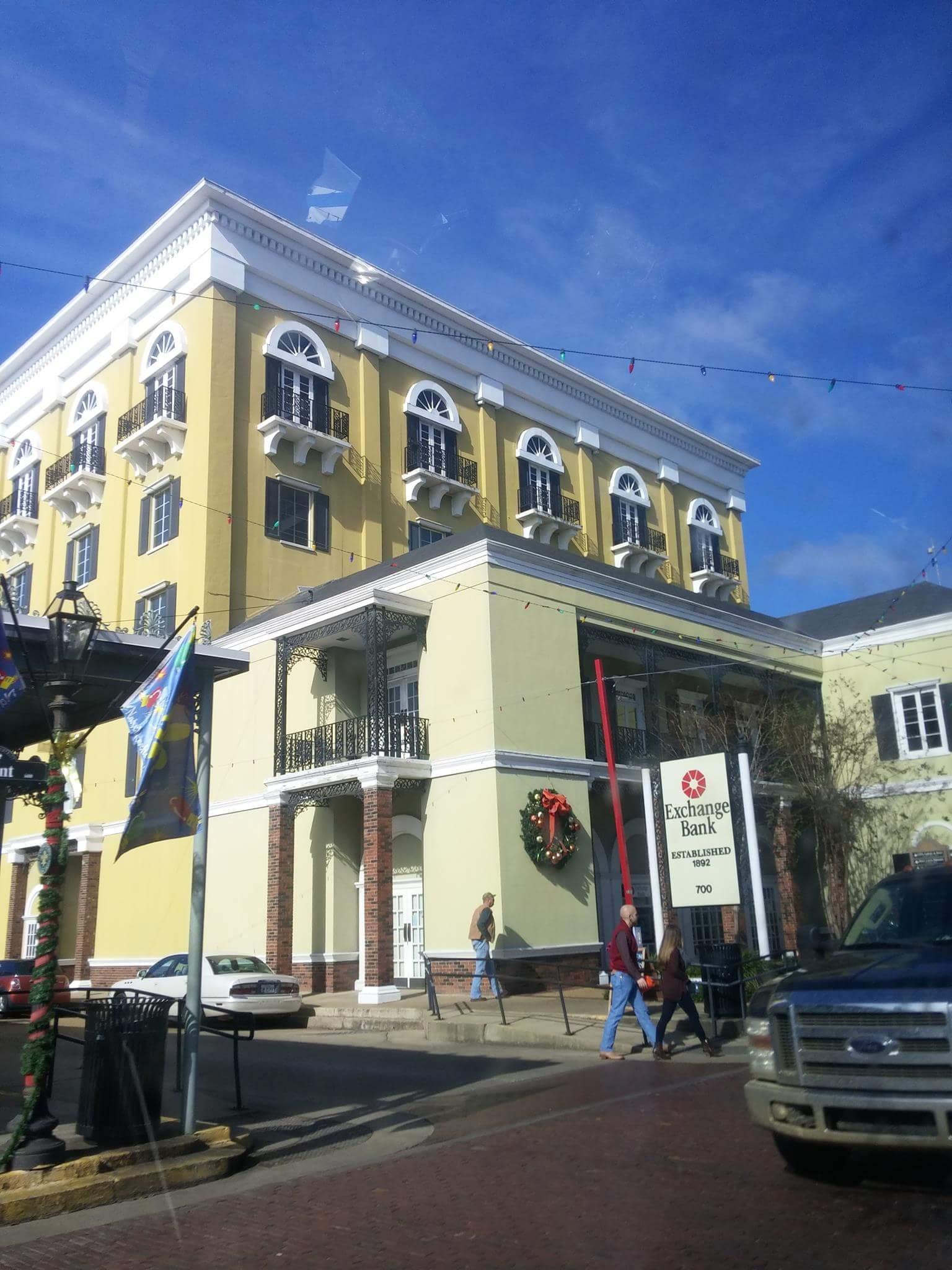 Im Taken The Headquarters